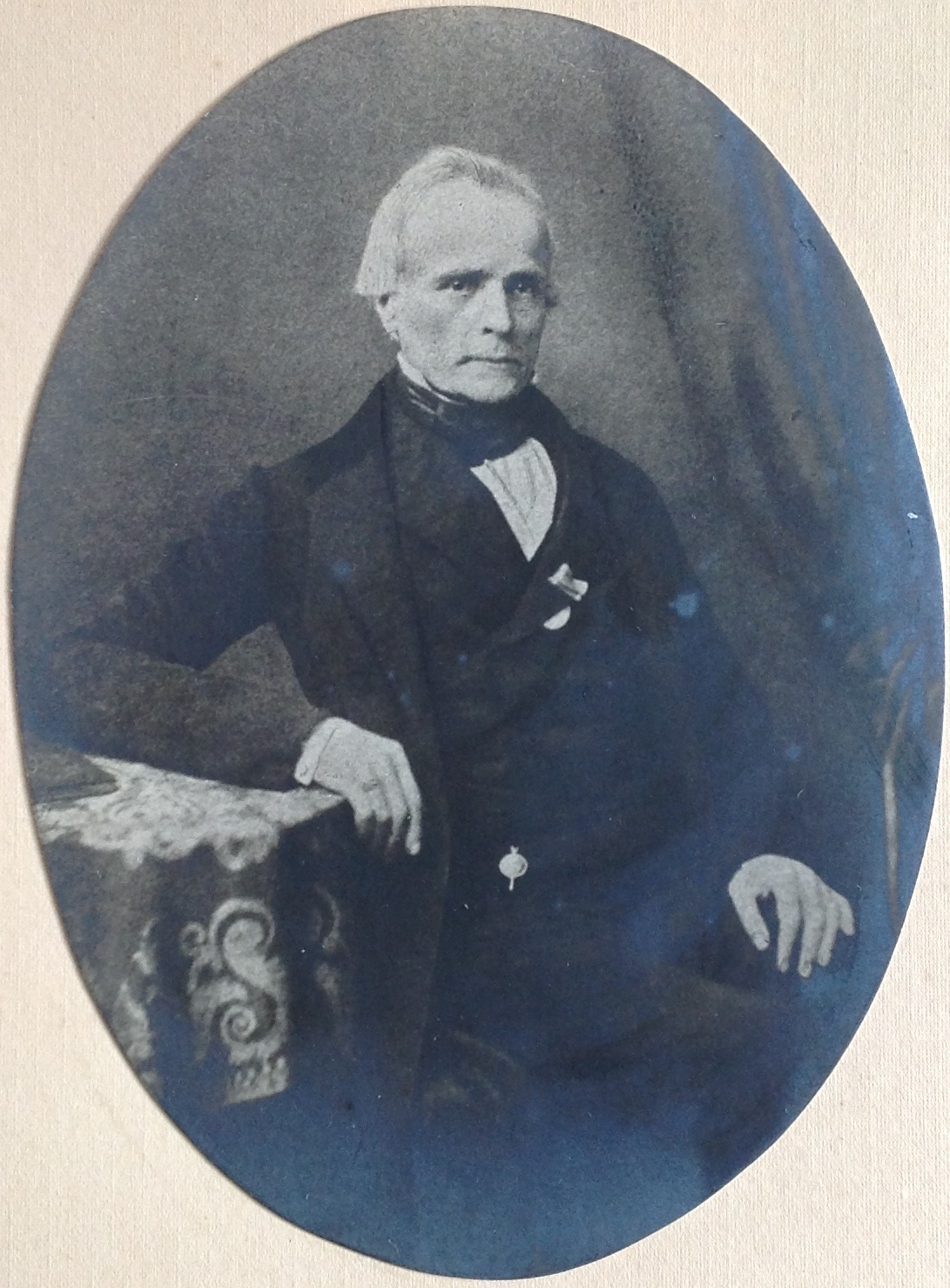 Georg Heinrich Hoffmann * 24.05.1797 at Lauterberg/Harz; † 05.05.1868 at Hannover was a German mathematic, pyrotechnician, artillerist und pedagogue and draftsman and lithographer and water engineering inspector